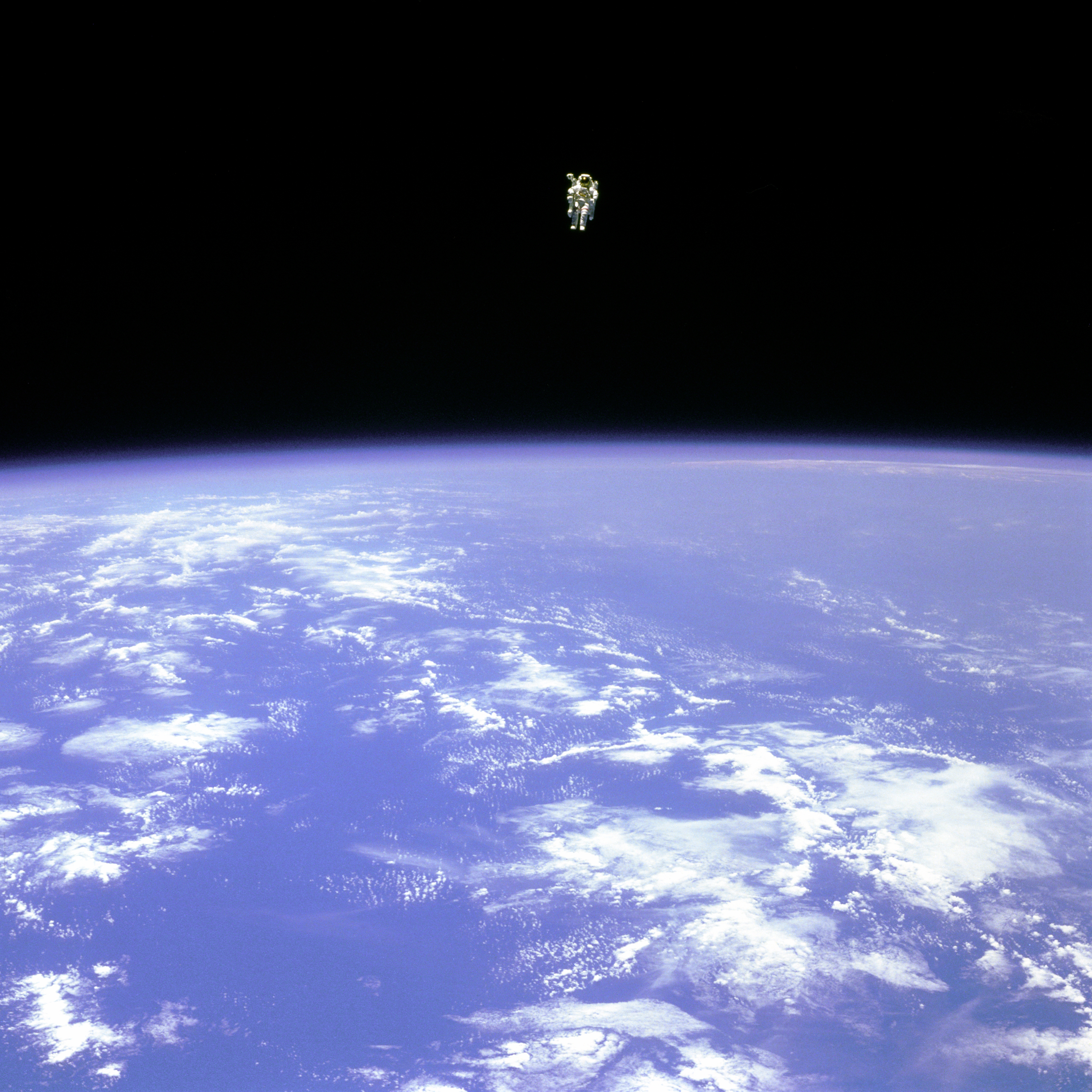 Mission Specialist Bruce McCandless II, is seen further away from the confines and safety of his ship than any previous astronaut has ever been. This space first was made possible by the Manned Manuevering Unit or MMU, a nitrogen jet propelled backpack. After a series of test maneuvers inside and above Challenger's payload bay, McCandless went "free-flying" to a distance of 320 feet away from the Orbiter. This stunning orbital panorama view shows McCandless out there amongst the black and blue of Earth and space.